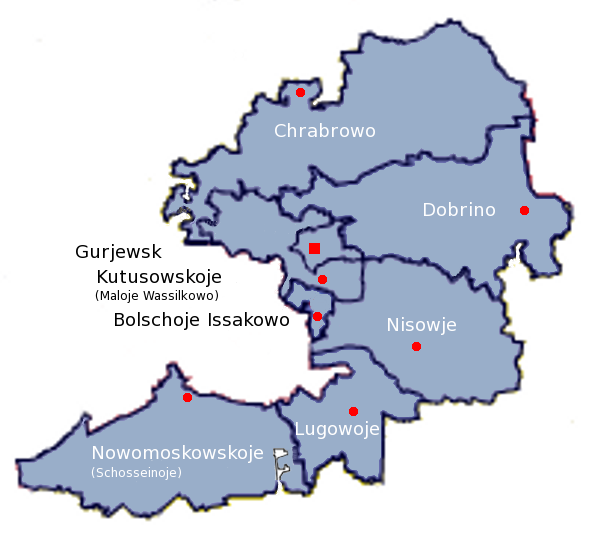 The administrational division of the Guryevsky District in German transcription